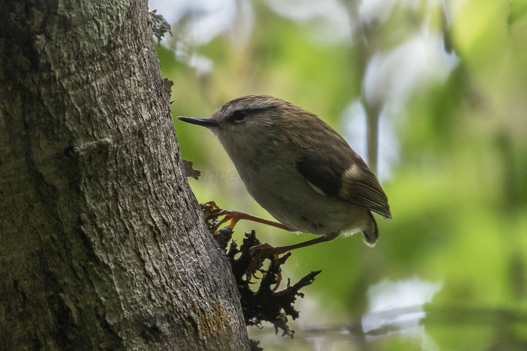 Rifleman - New Zealand_FJ0A7093